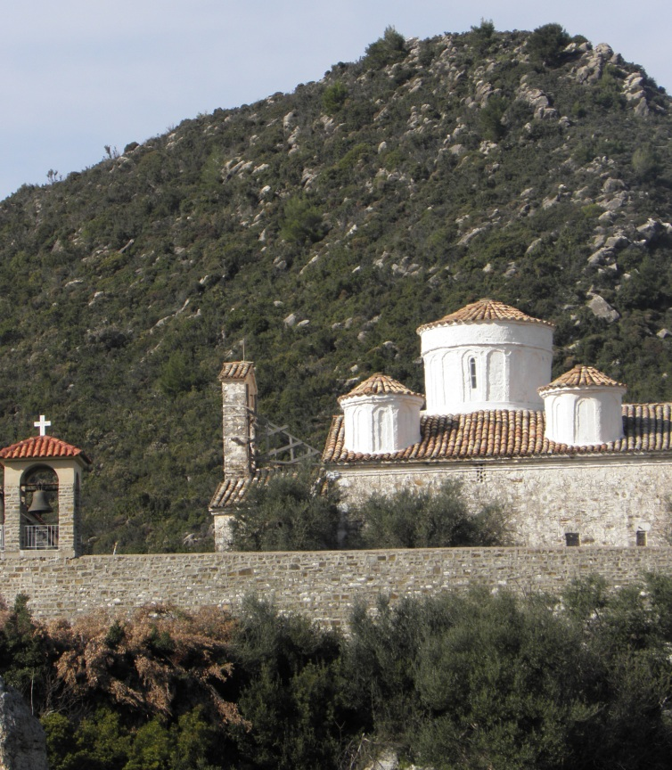 Partial view of Agia Marina Maritsis monastery, Achaia, Greece.